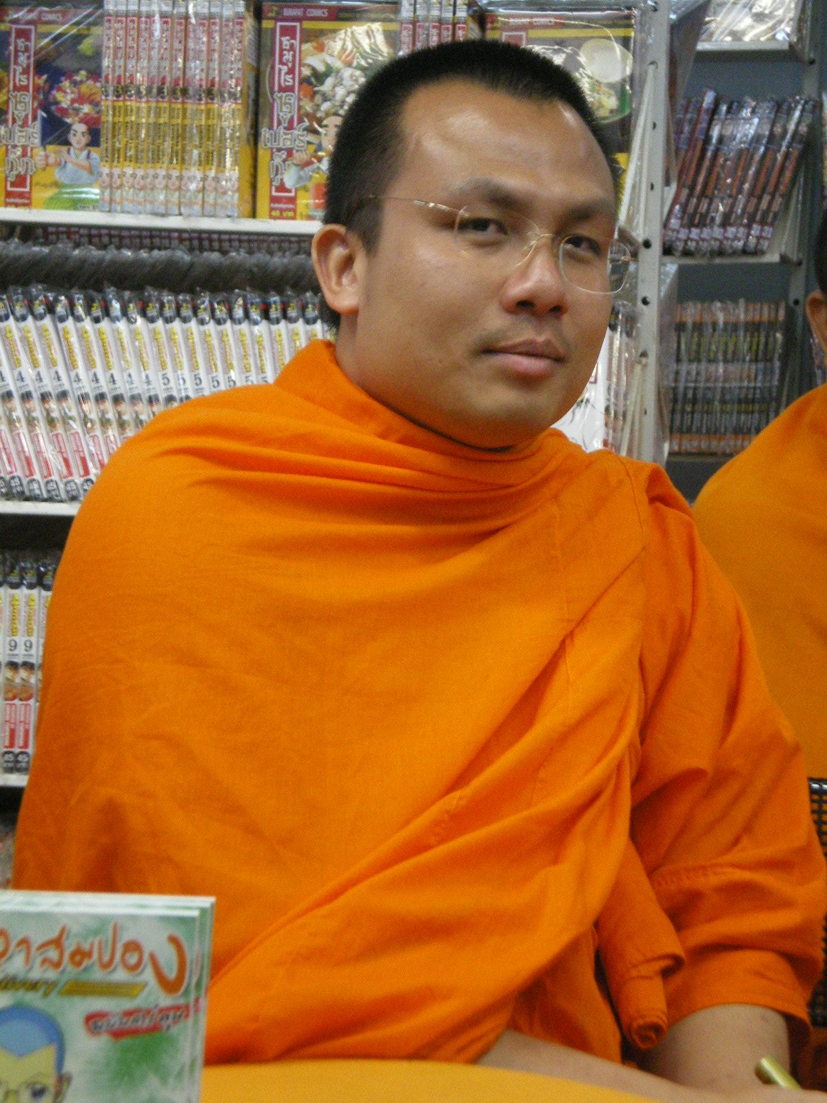 Phra Maha Sompong Talaputto (พระมหาสมปอง ตาลปุตโต) at Bangkok International Book Fair 2009.